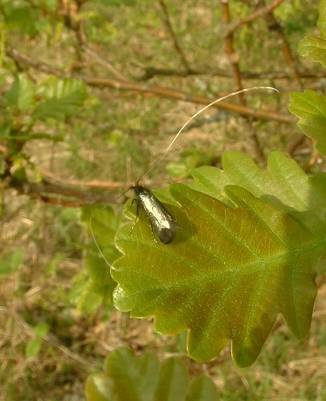 Adela reaumurella photo by Jeffdelonge Gy 24 04 2006 male